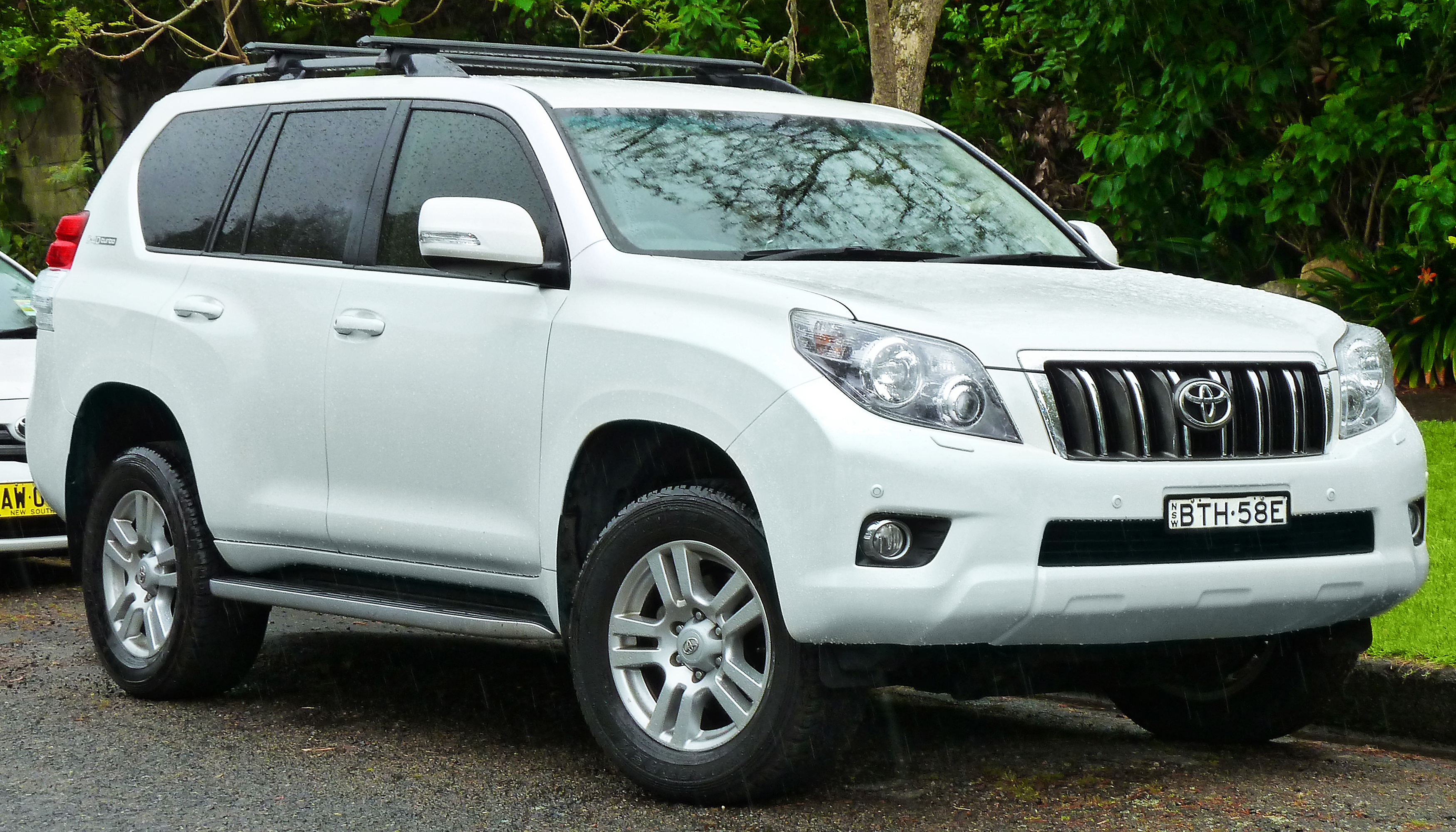 2009–2011 Toyota Land Cruiser Prado (KDJ150R) VX 5-door wagon. Photographed in Roseville, New South Wales, Australia.